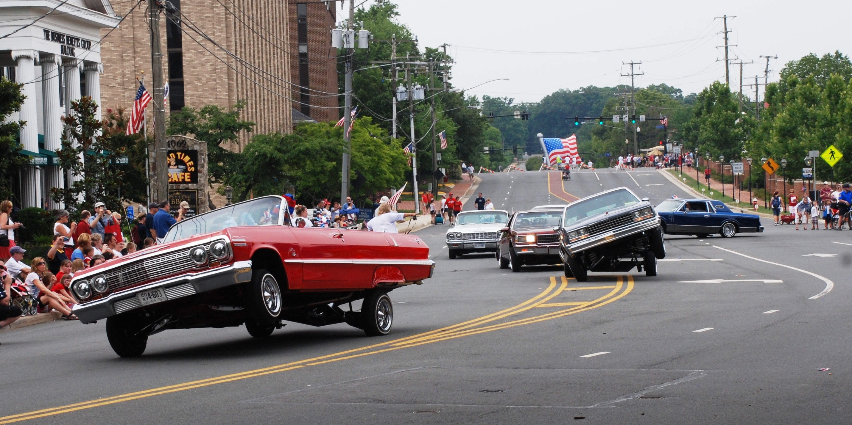 Just Klownin Virginia Car Club members in 4th of July parade - 1963 Chevrolet Impala convertible with hydraulics followed by other cars.